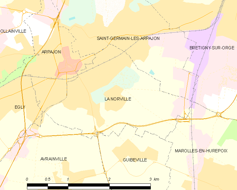 Map of French municipality La Norville